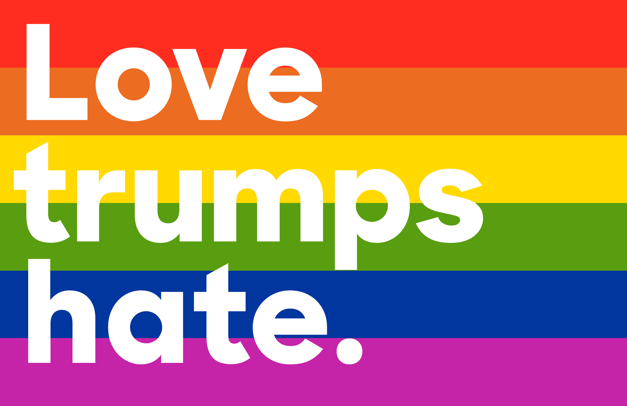 Love Trumps Hate